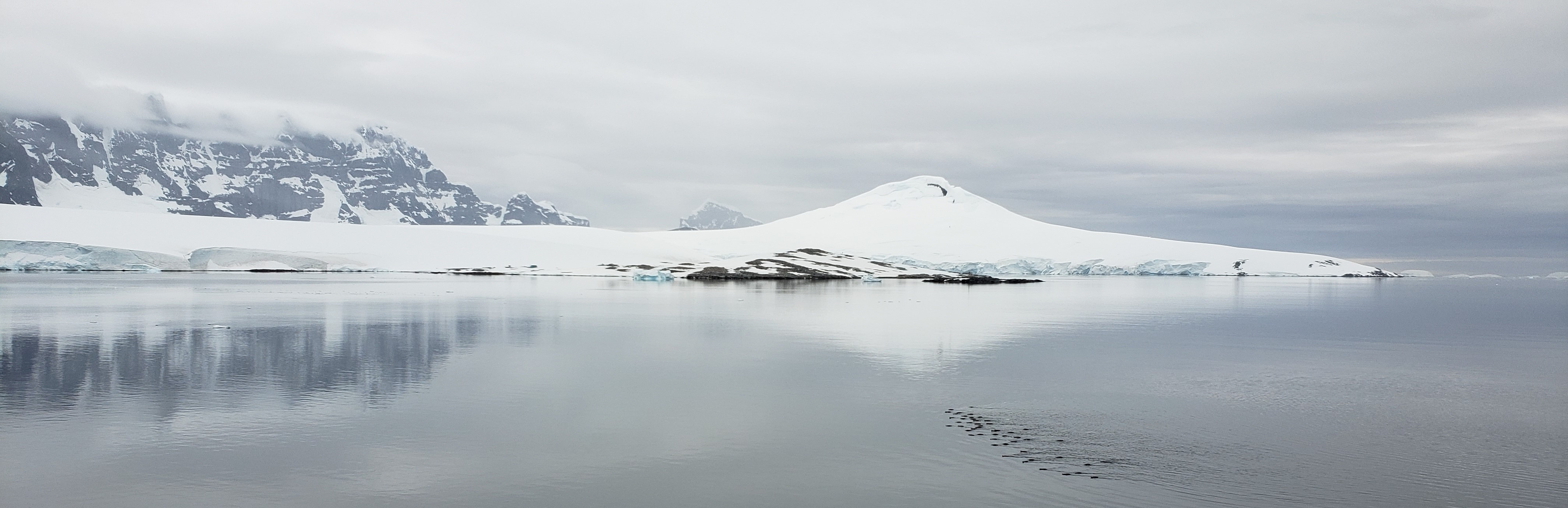 Damoy Point